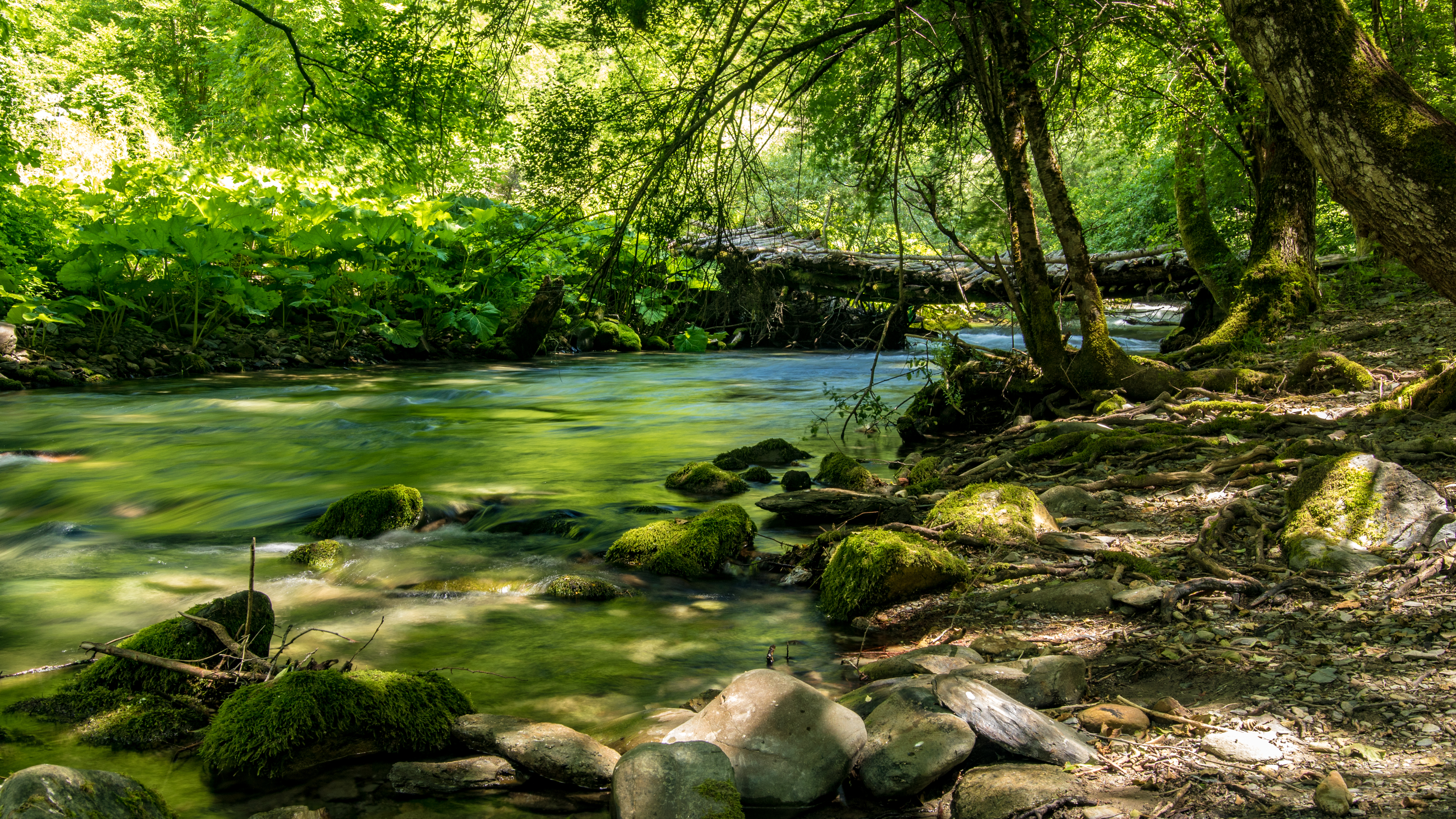 View of the river Mala Reka in western Macedonia